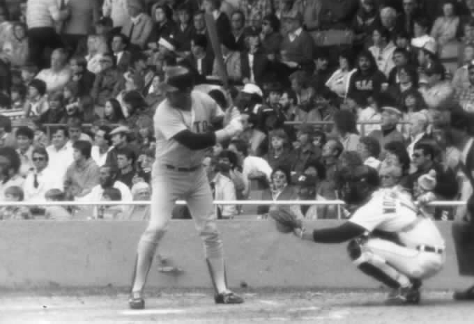 photo by Einar Einarsson Kvaran Carl Yastrzemski